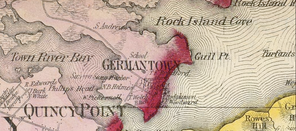 Map of Germantown, Quincy, Massachusetts from H. F. Walling Map of the County of Norfolk, Massachusetts, 1858.